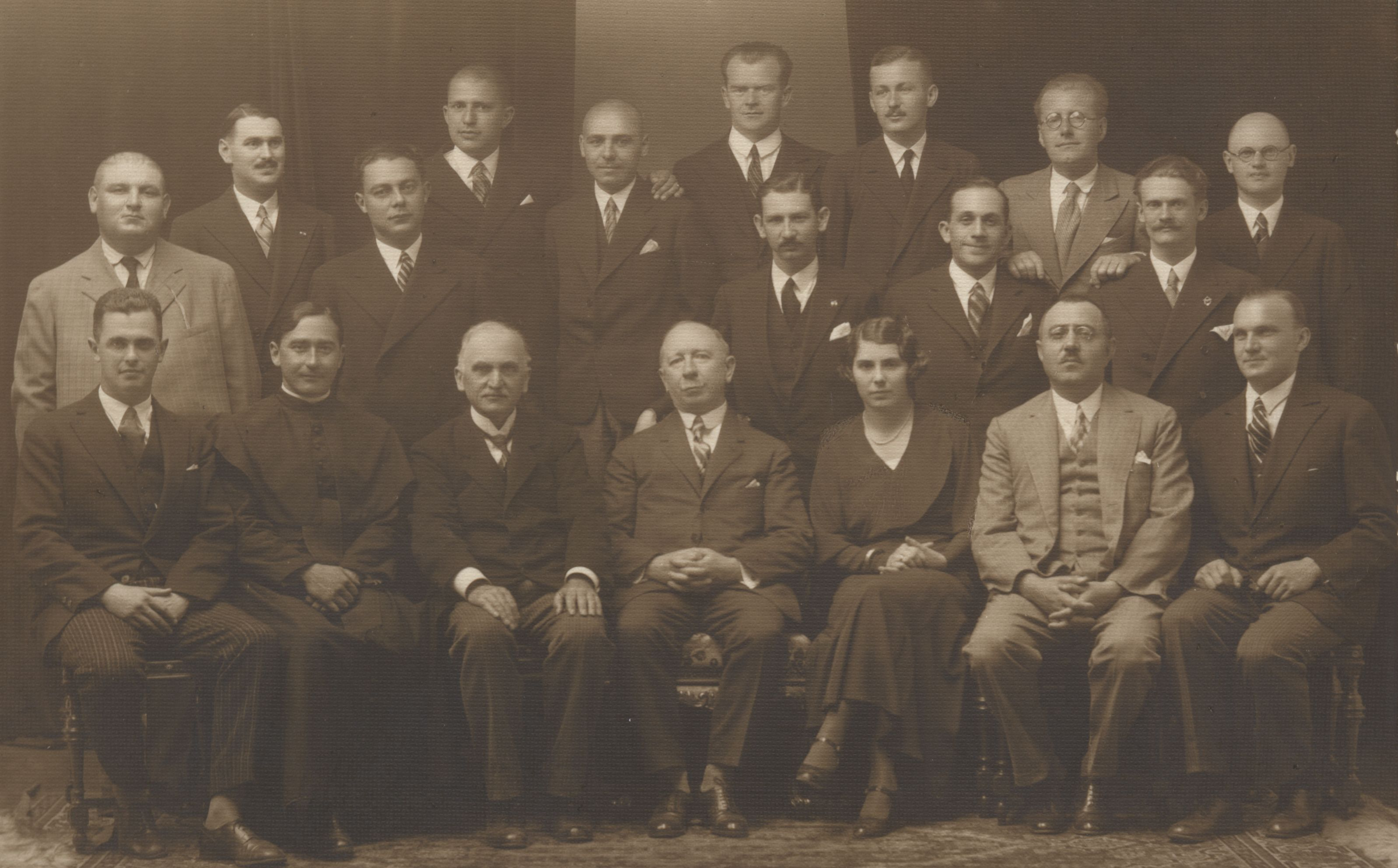 10-year-old high school reunion in 1933.[1] In the middle Imre Jaray director, right-hand side Bela Molecz deputy director